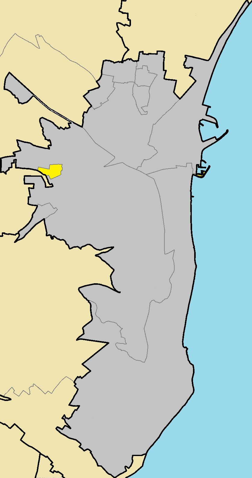 Kamares in Larnaca Municipality.